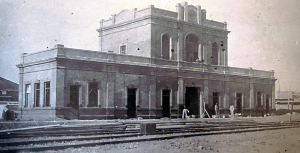 Comodoro Rivadavia station building, part of Ferrocarril de Comodoro Rivadavia.